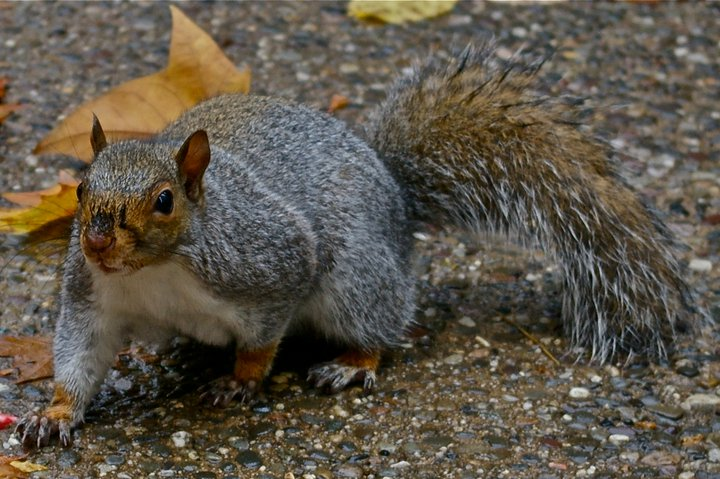 Eastern Gray Squirrel inhabitant of Philadelphia, PA